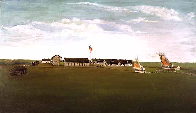 Oil painting depicting Fort Ridgely in 1890. Painter: James McGrew Art Collection, Oil 1890 Location no. AV1986.5.2 Negative no. 61647